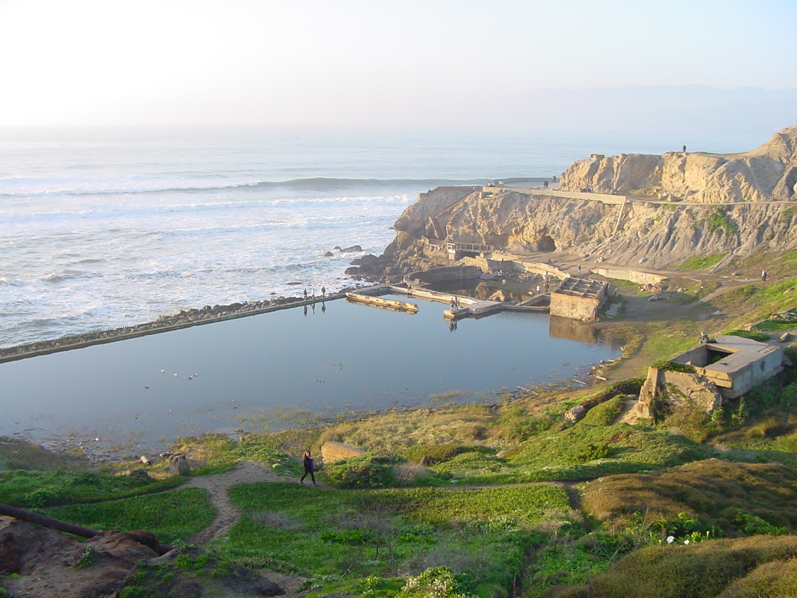 Sutro Baths, San Francisco, California, USA. Sunset over the ruins of the main baths.